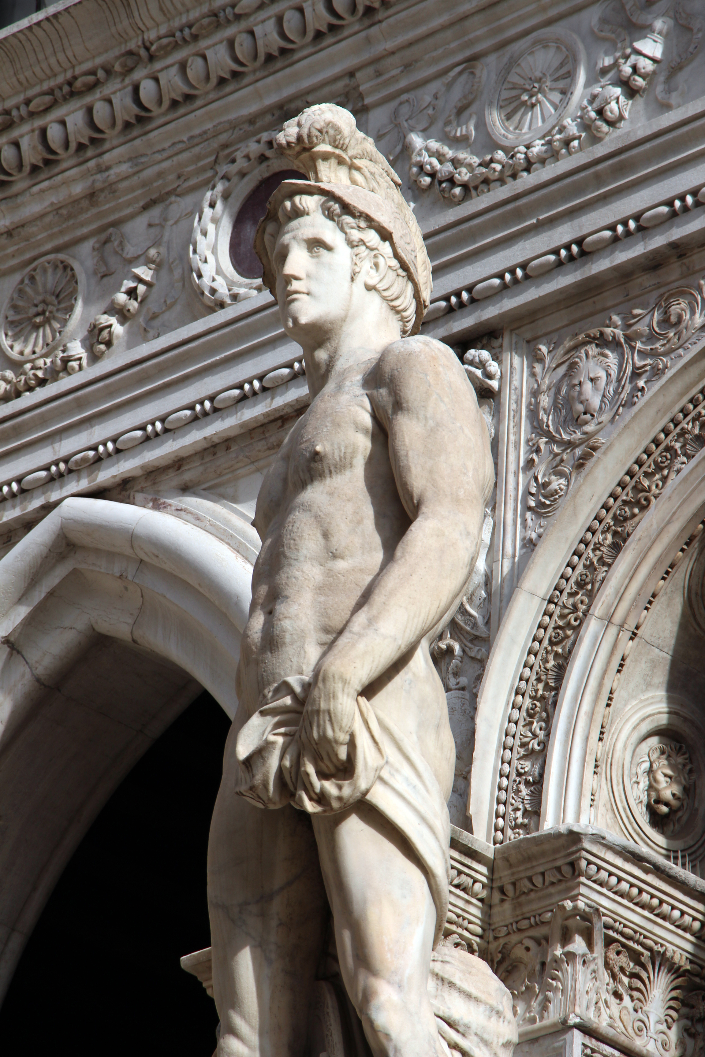 Courtyard of the Doge's Palace (Venice)